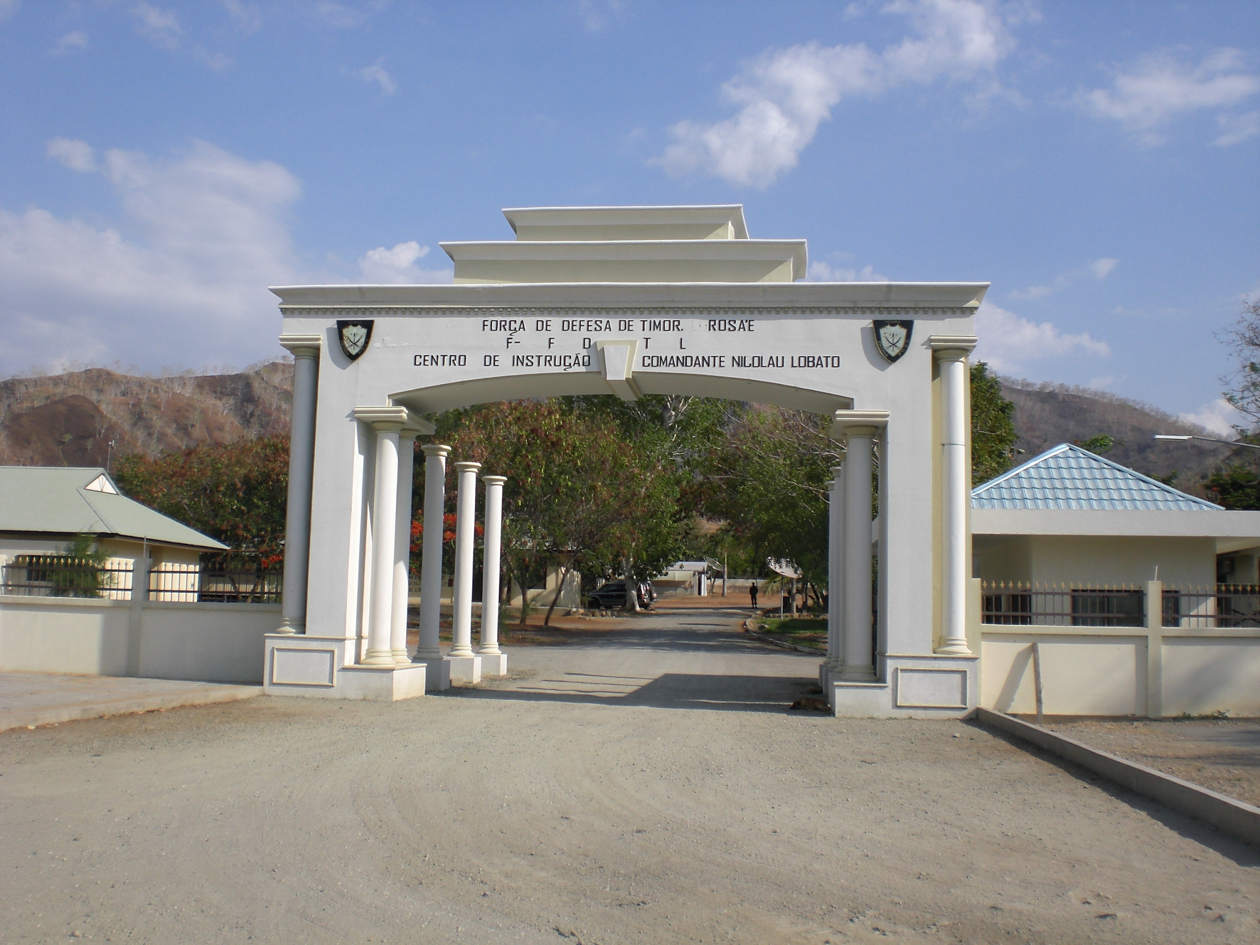 Timor-Leste Military - Centro de Instrução "Comandante Nicolau Lobato" near Metinaro